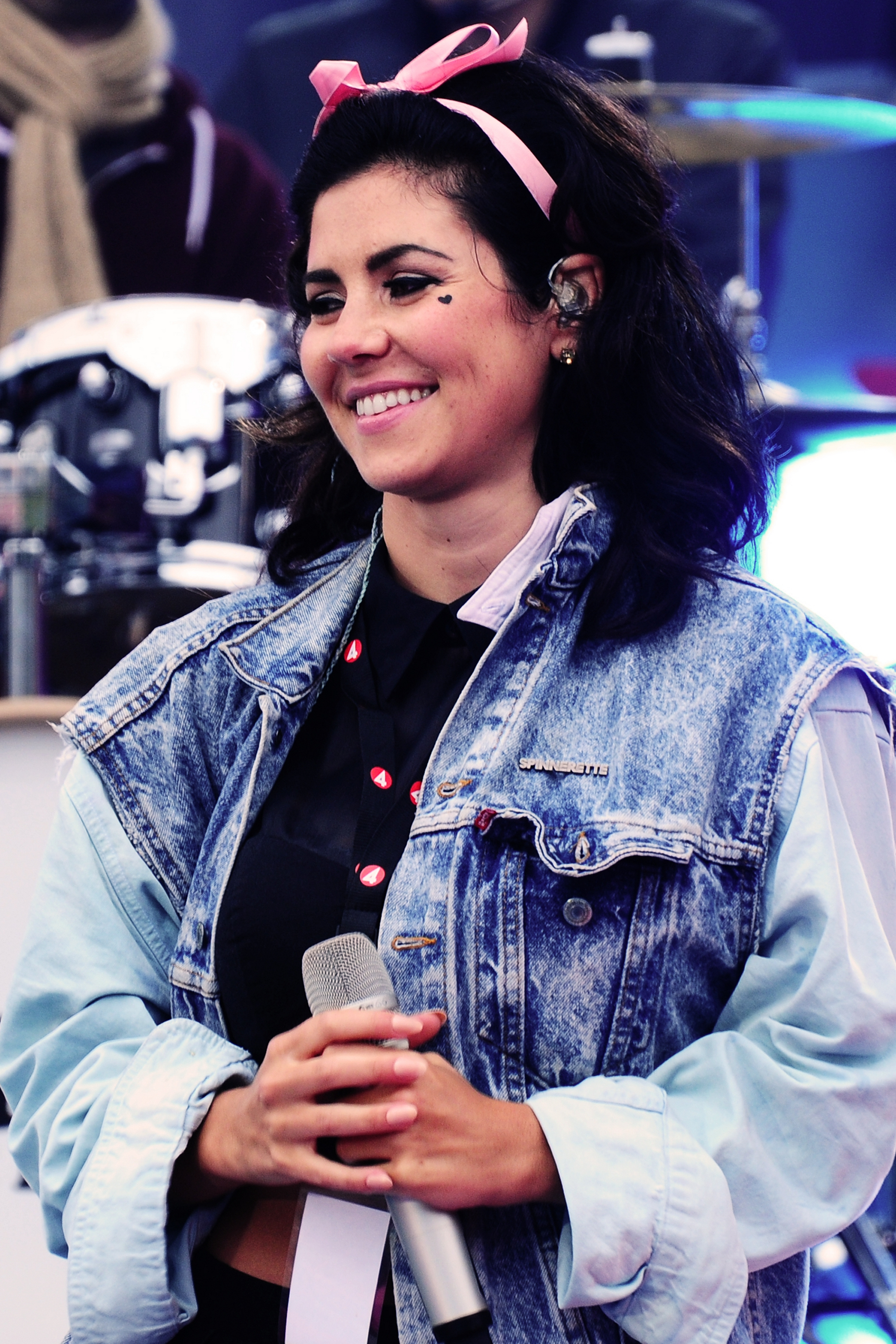 Marina and the Diamonds at Sommarkrysset, Sweden, in 2012